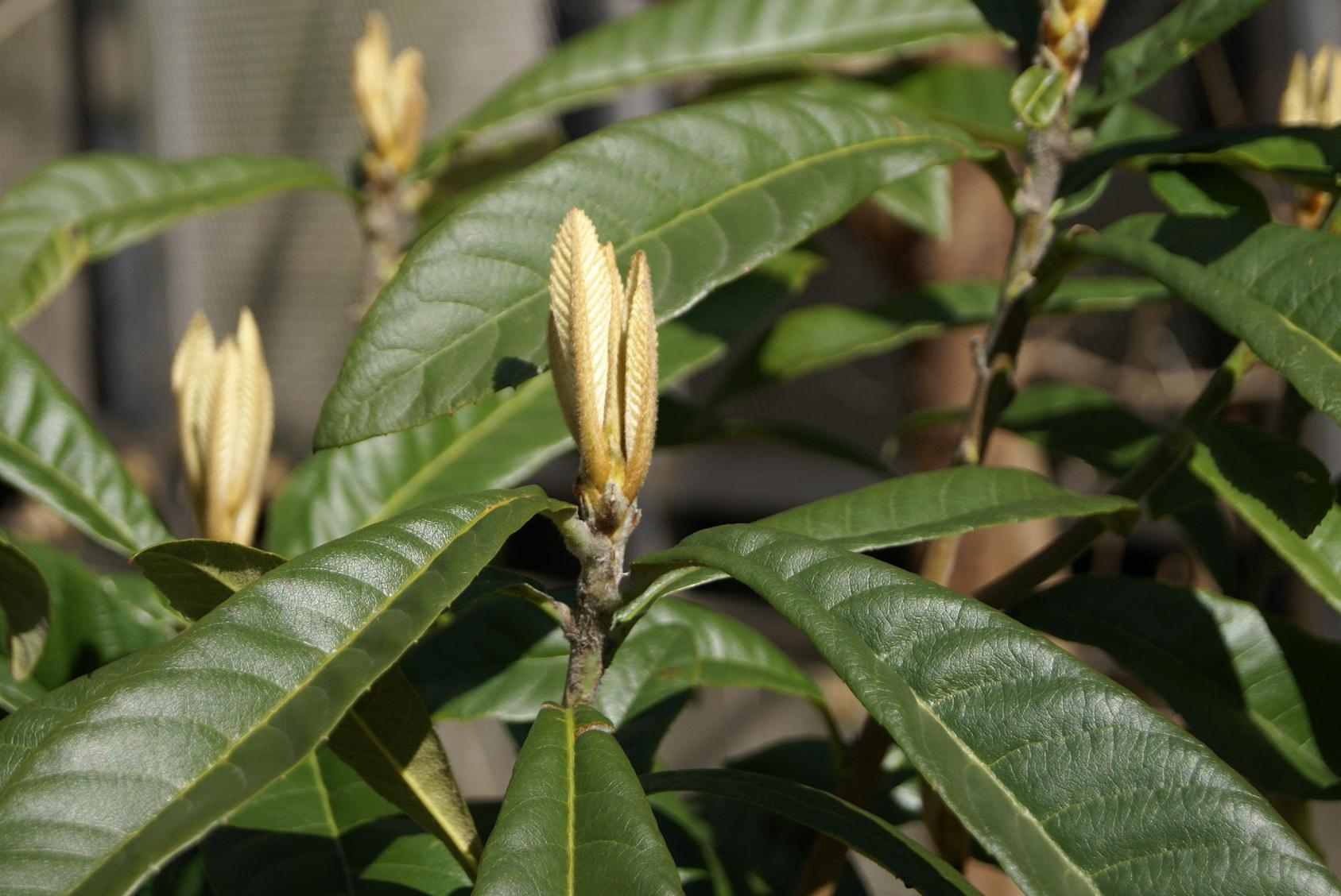 Budding green of Eriobotrya japonica (biwa).